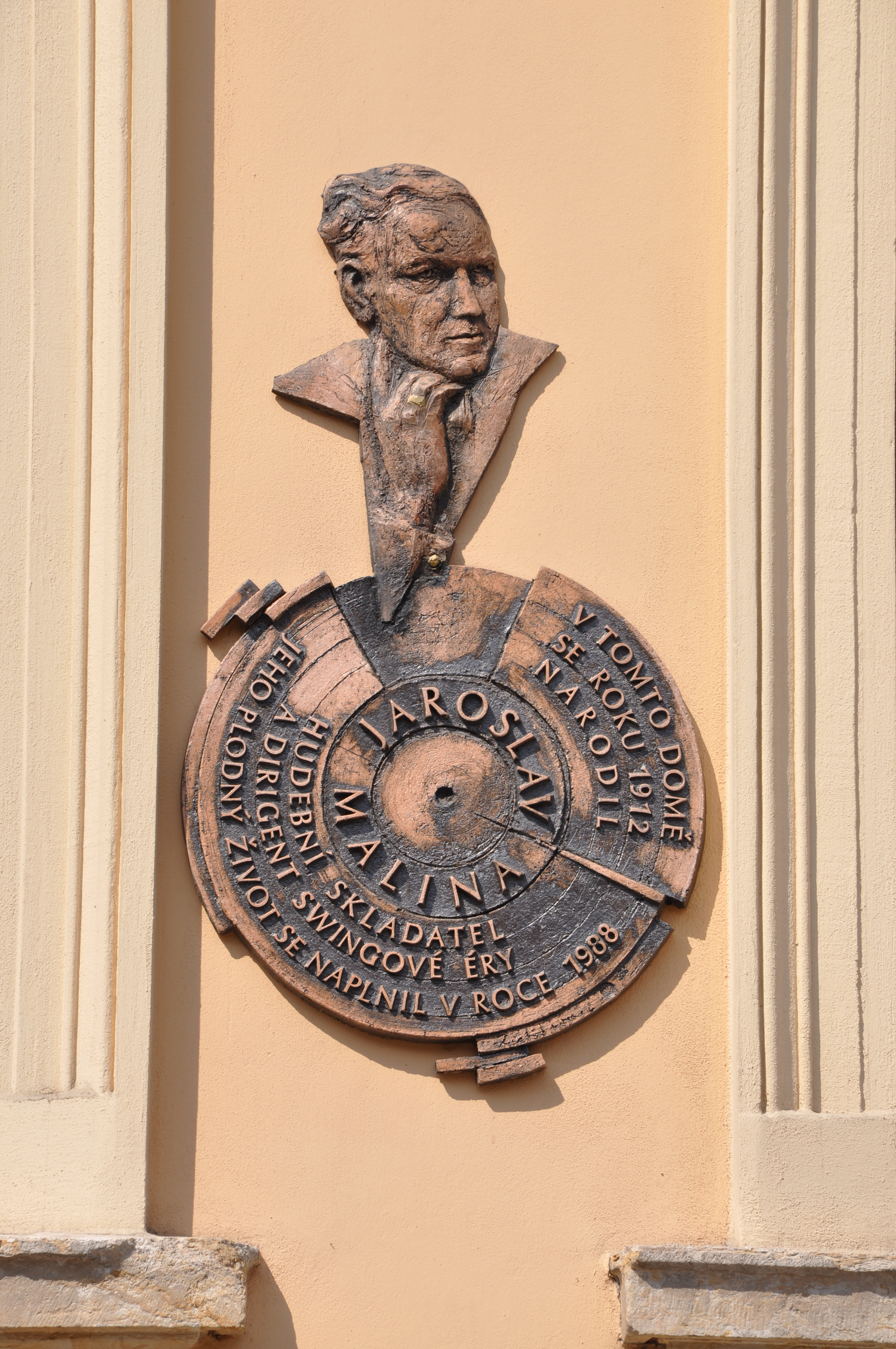 Memorial plaque in Hořice, Jičín District, the Czech Republic.Jaroslav Malina (1912–1988), a composer, was born here on July 4, 1912. Sculptor: Roman Richtermoc (1950–2010).